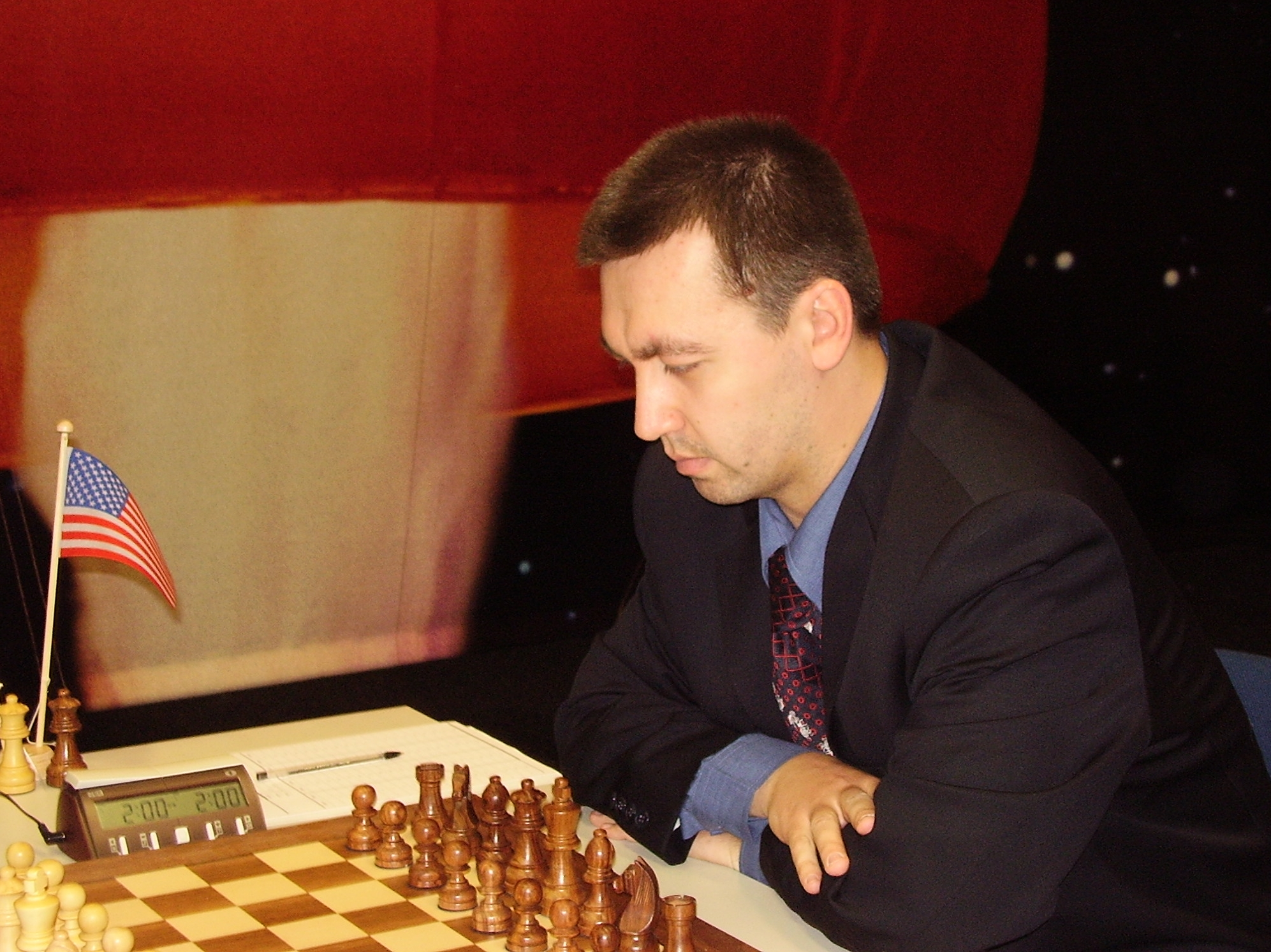 G. Kamsky at Corus tournament, January 2006. Own photo.